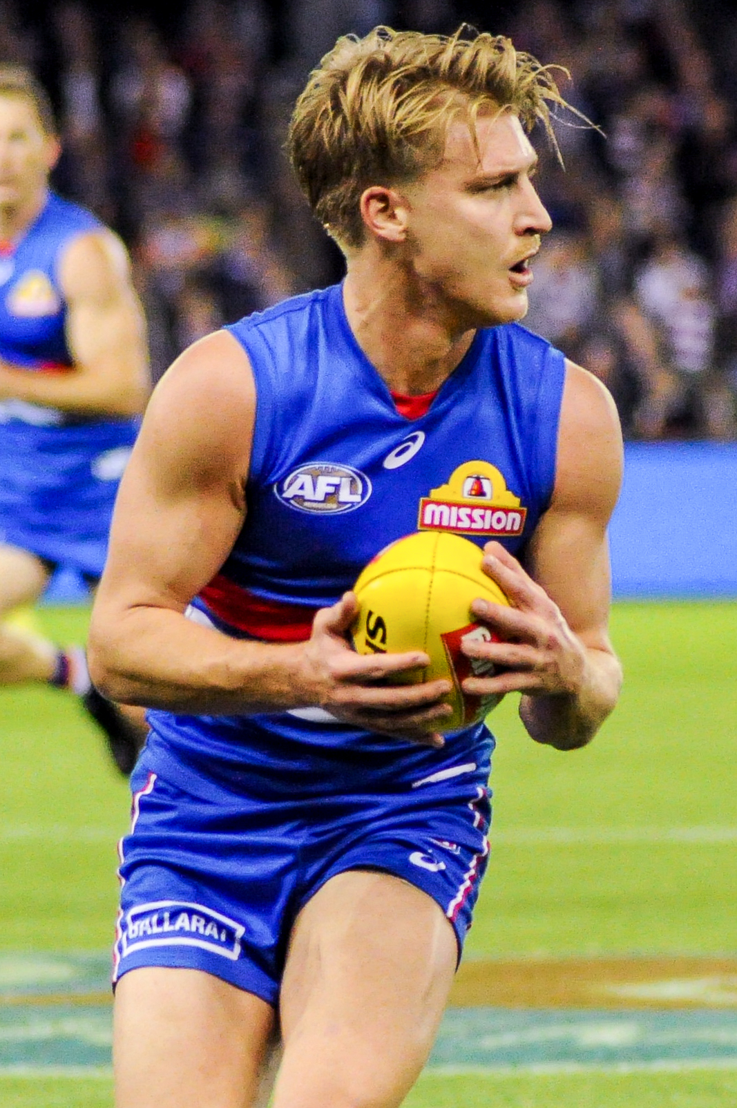 Shane Biggs during the AFL round thirteen match between the Western Bulldogs and Melbourne on 18 June 2017 at Etihad Stadium in Melbourne, Victoria.